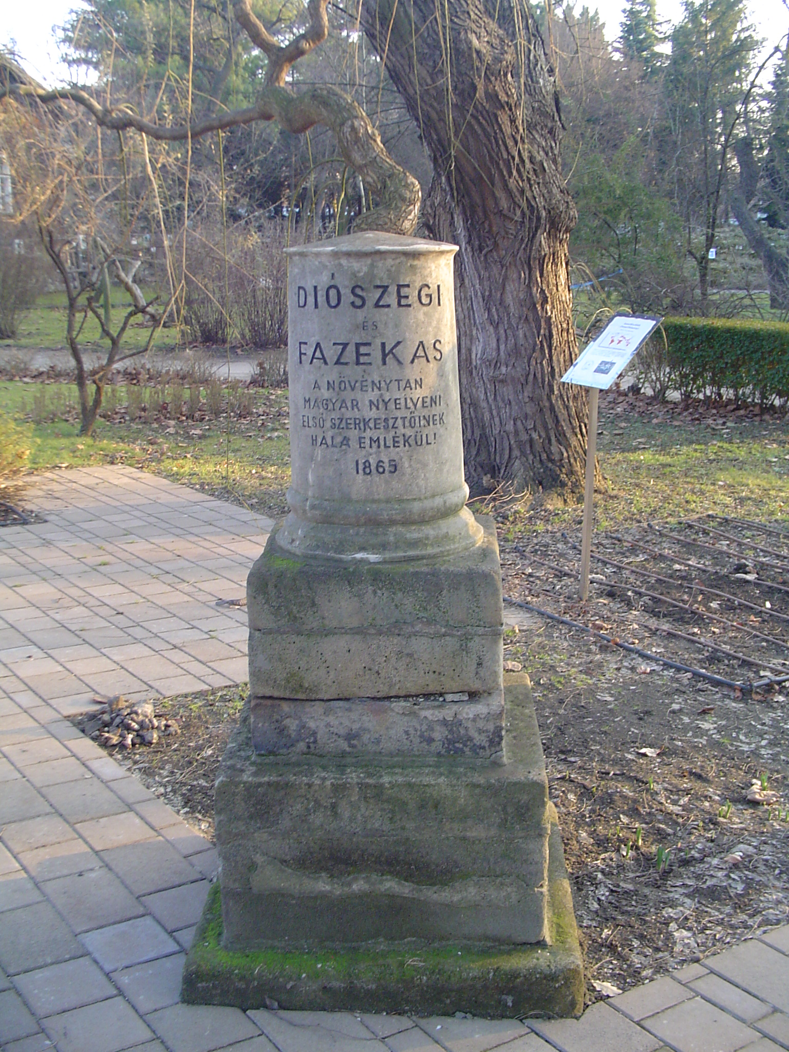 Memorial of Diószegi Sámuel and Fazekas Mihály from Füvészkert (Botanic garden of Budapest)